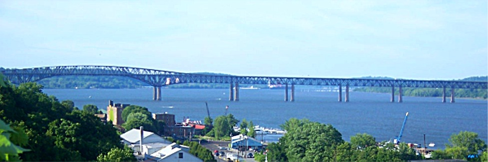 Photographed by Daniel Case from Overlook Terrace in Newburgh, 2005-06-23.